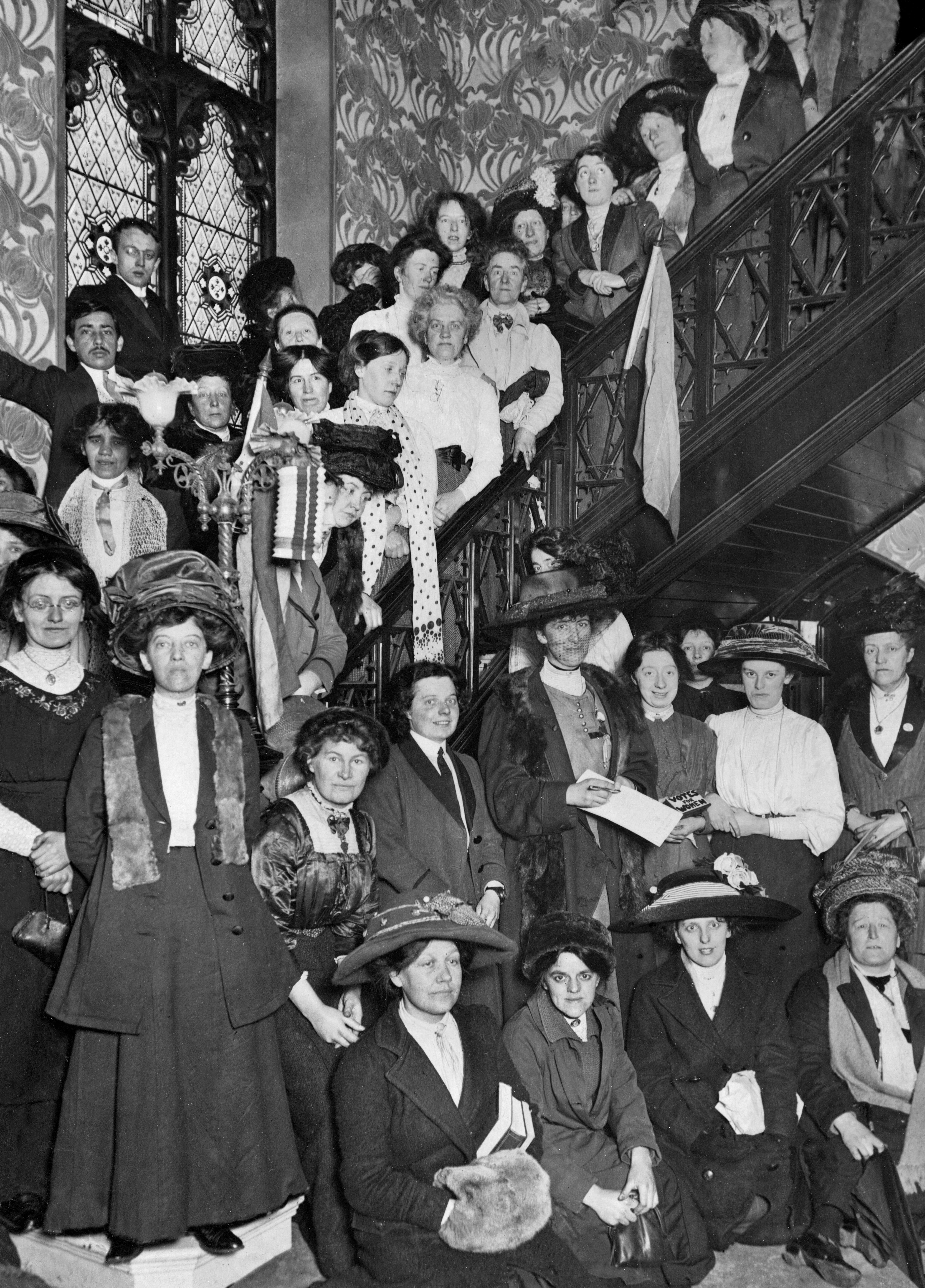 suffragettes gathered in Manchester Census Lodge to Boycott the 1911 Census